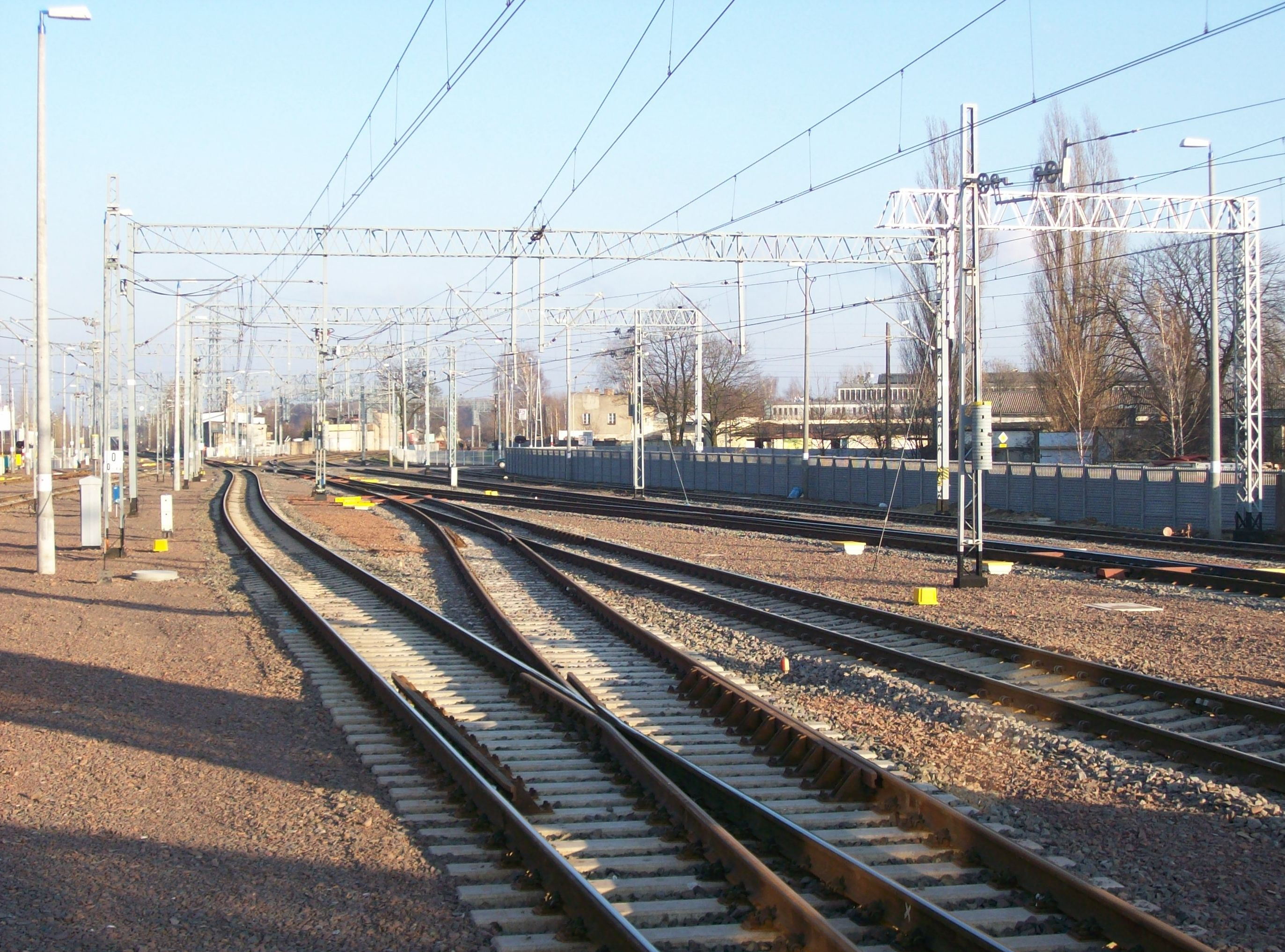 Railroad track № 3 near station Poznań Wschód.